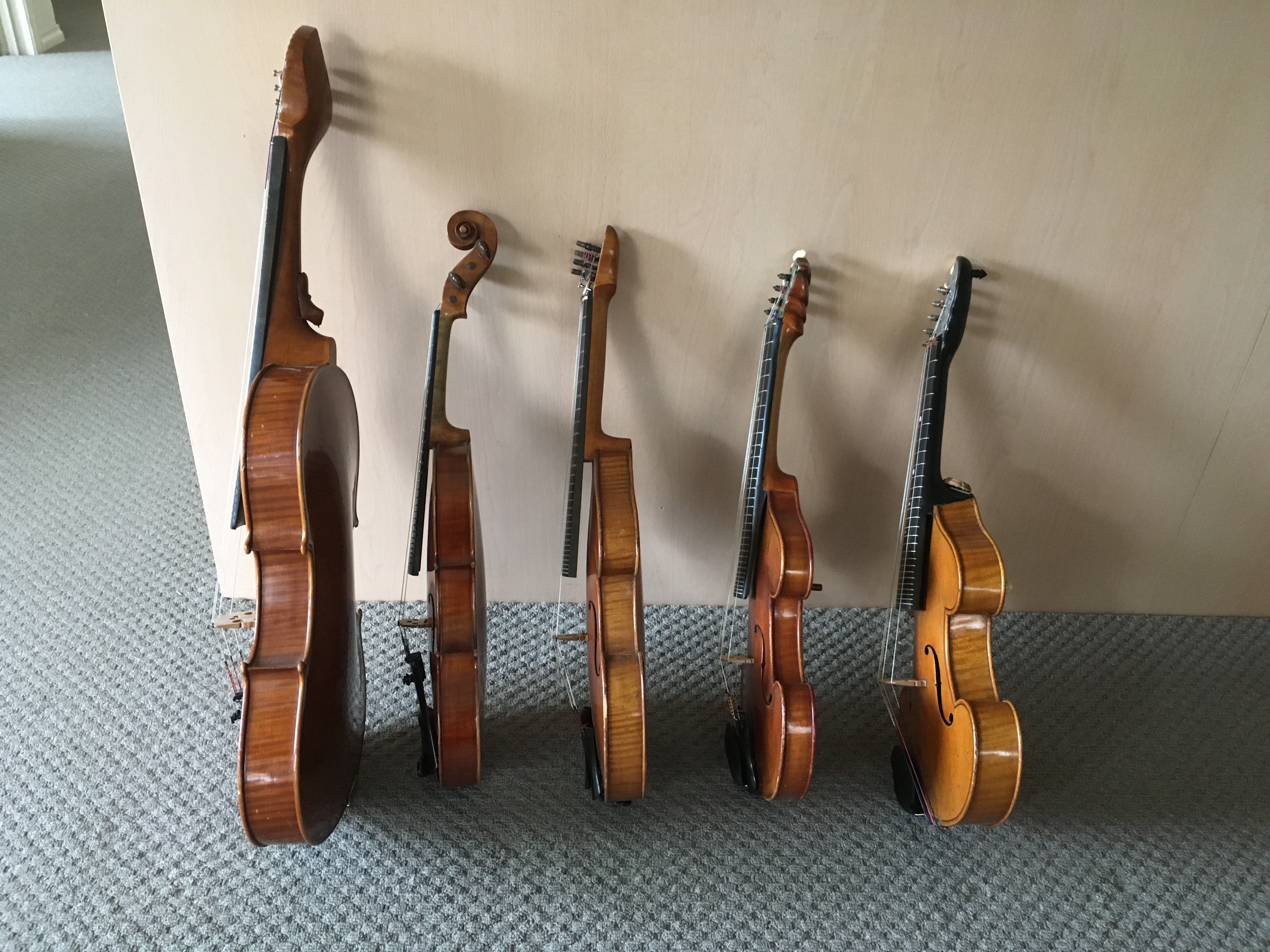 Different variations of the tenor violin rib size